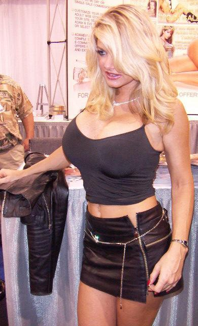 American pornographic actress Vicky Vette at Internext Pictures on Jan 4, 2005